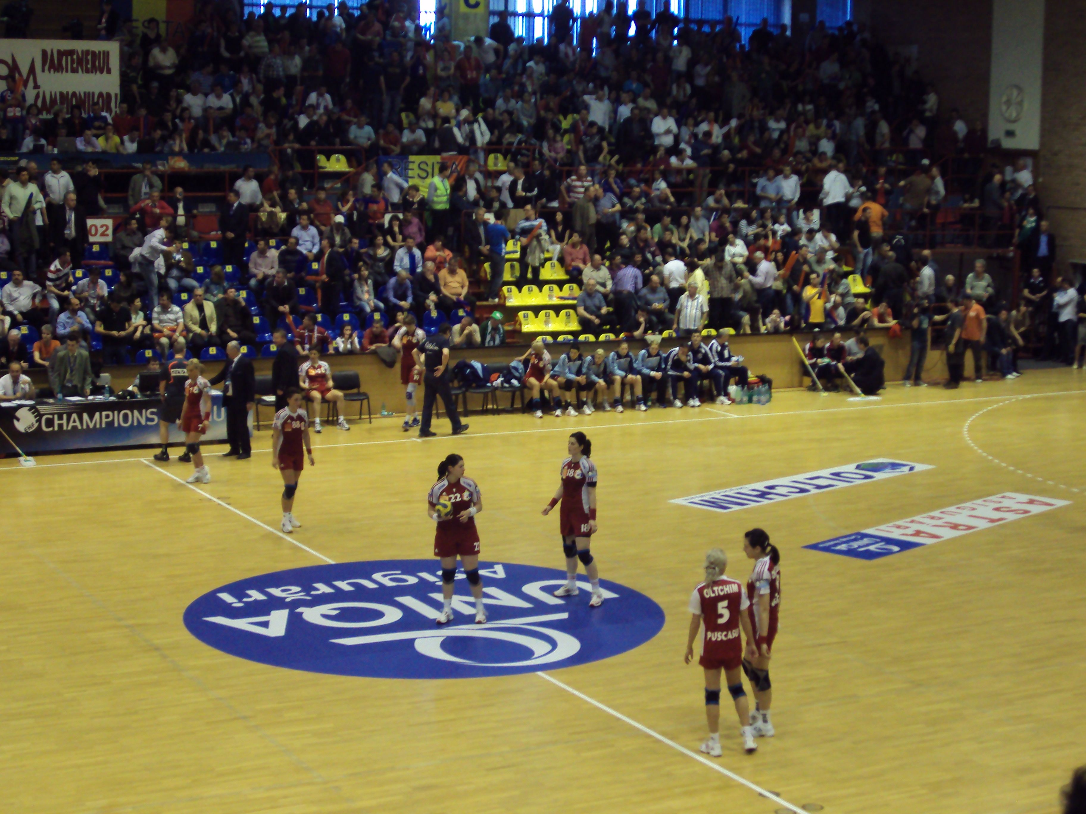 CS Oltchim Râmnicu Vâlcea preparing an attack against Győri Audi ETO KC on April 18, 2010, in the second leg of EHF Champions League's semifinal. Left to right: Adriana Nechita, Patricia Vizitiu, Oana Manea, Adina Meiroșu, Iulia Pușcașu and Cristina Neagu.